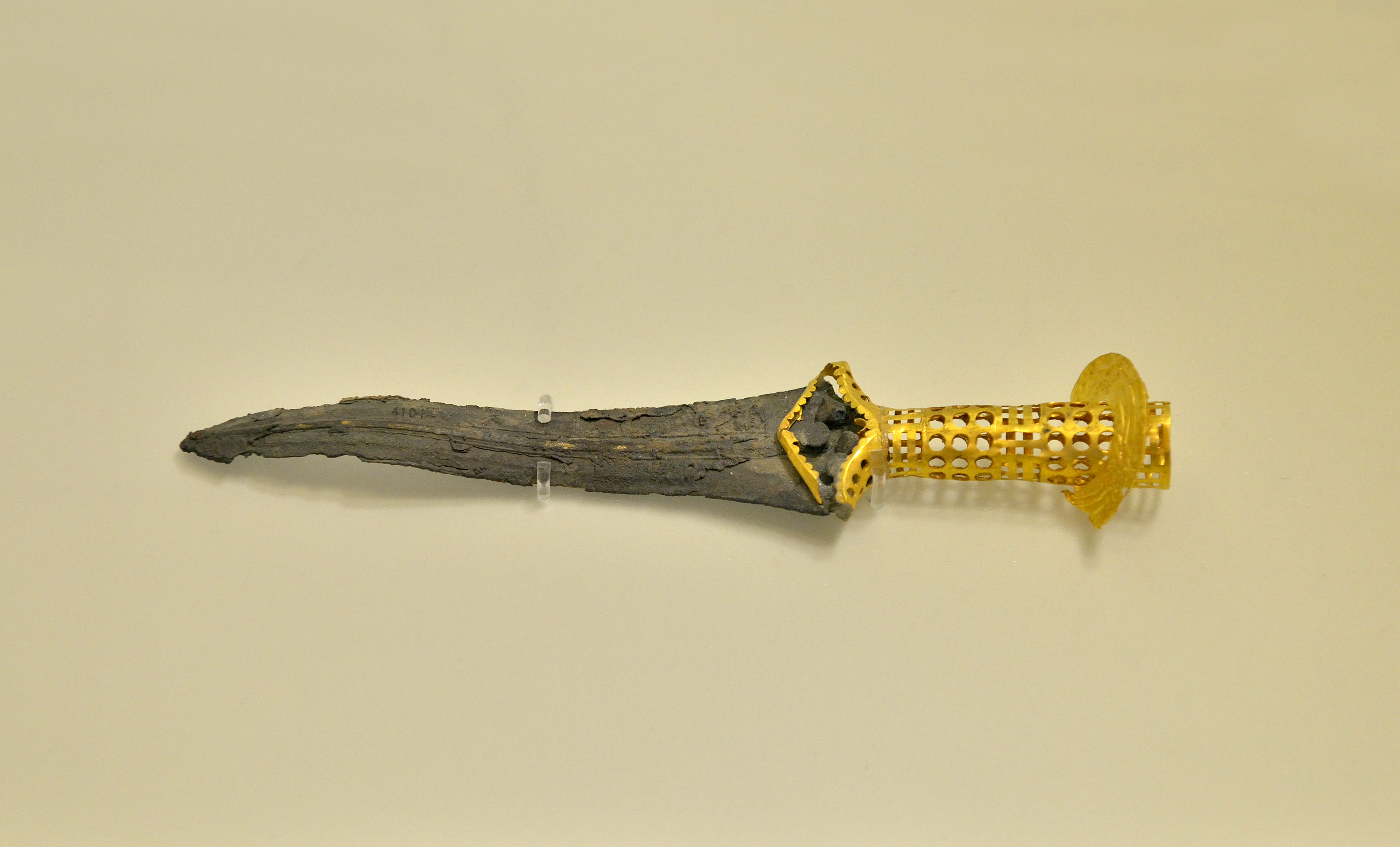 Bronze dagger with a hilt-sheath made of cutout gold sheet from Malia (1800-1700 BC). Located in the Archaeological Museum of Heraklion in Crete